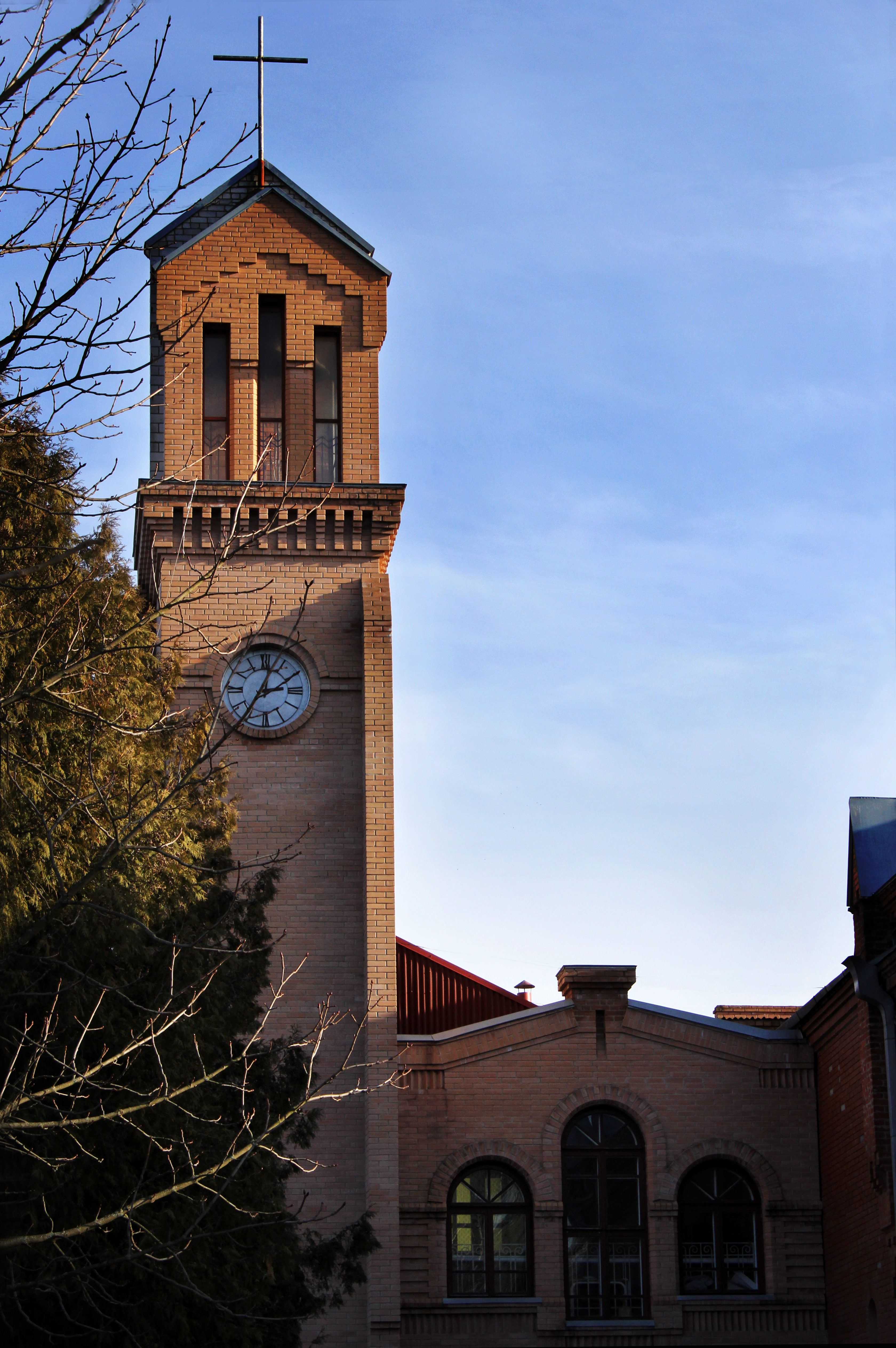 Baptist church in Zhytomyr, formerly a Lutheran Church